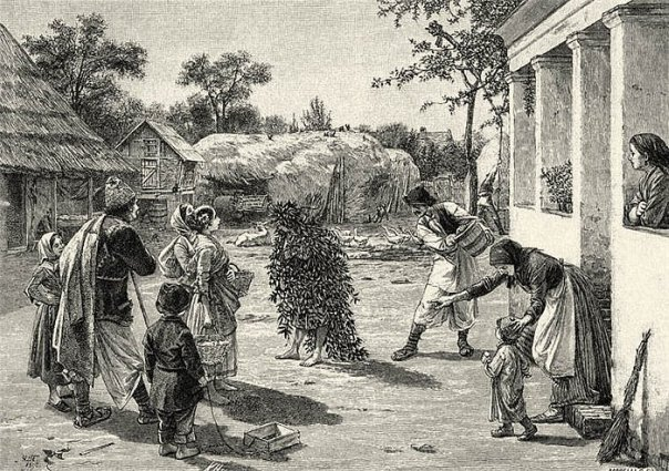 "Watering of Dodola", sketch by Uroš Predić, published in magazine "Orao" in 1892.